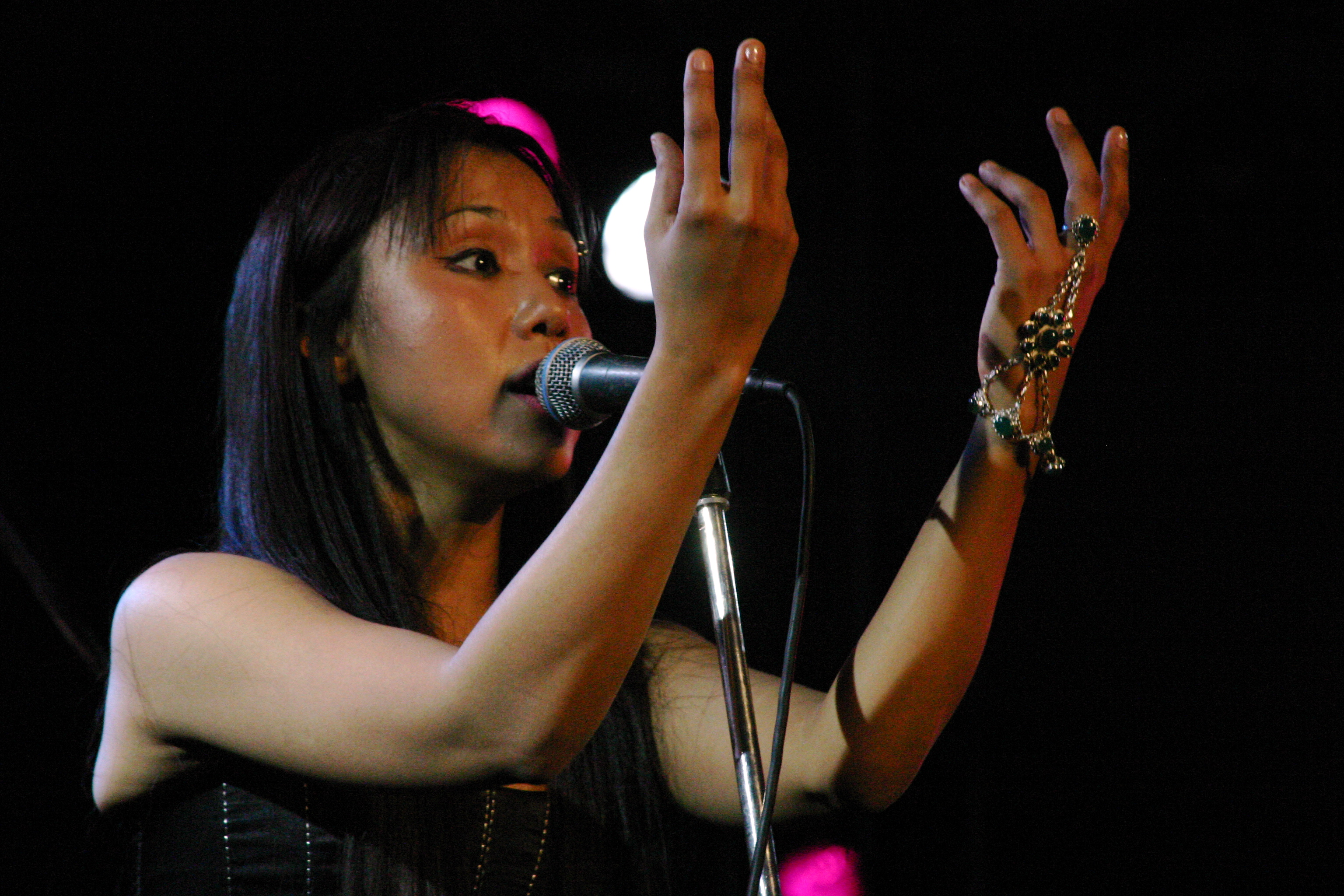 Sevara Nazarkhan performing at Realworld Party on June 28, 2006 in North Wraxall, England